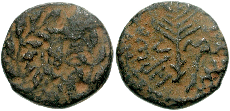 JUDAEA, Herodians. Herod Antipas. 4 BCE-39 CE. Æ 18mm (4.98 g). Dated year 34 (30 CE). Palm branch; L LD (date) across fields / Legend in two lines within wreath. Hendin 517; RPC I 4926. VF, black patina with reddish earthen deposits, a little rough.